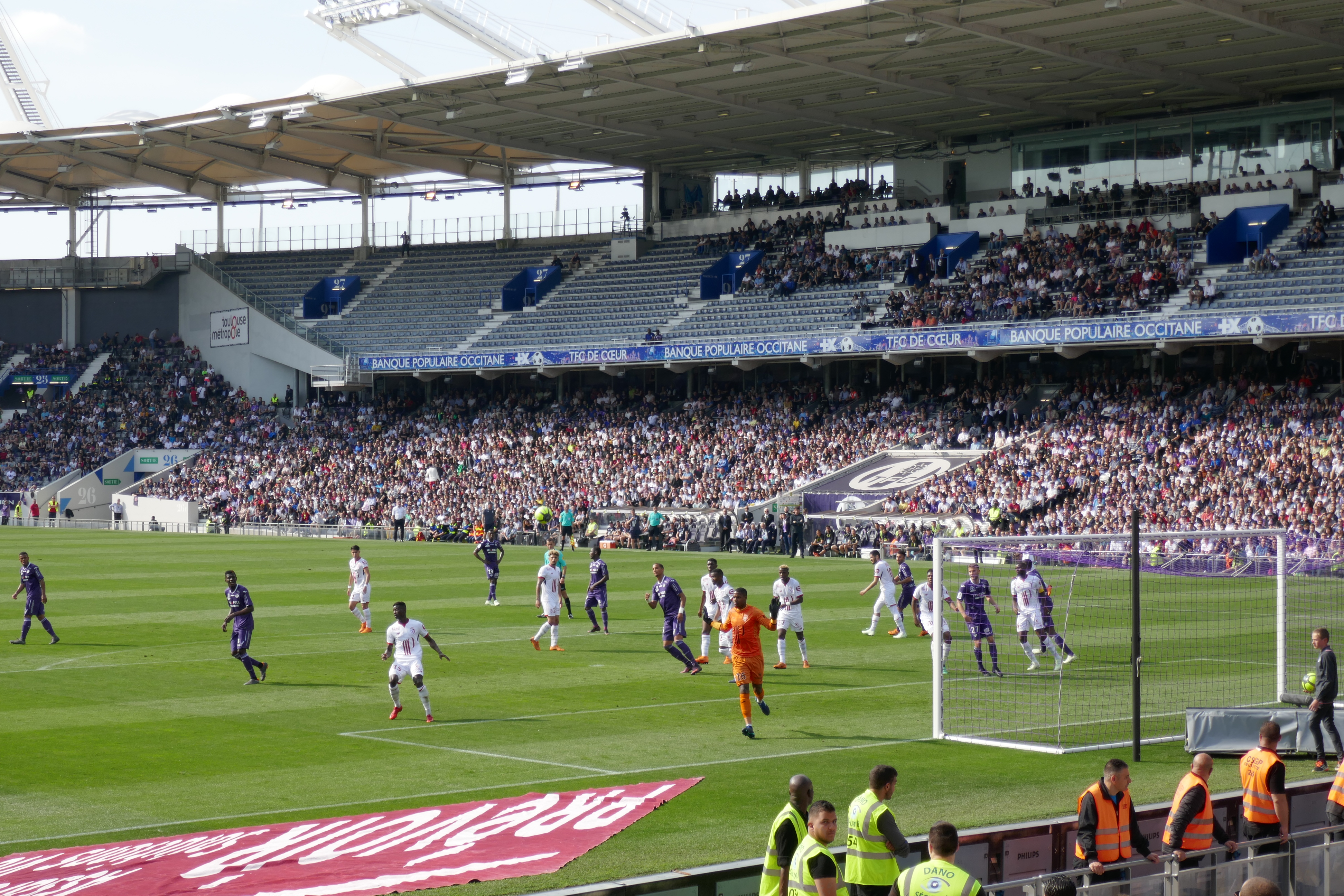 Match Toulouse FC - Lille OSC on the 6th May of 2018 for the 36th French Ligue 1 day in the 2017-2018 season: attack from Toulouse ended out of the field.